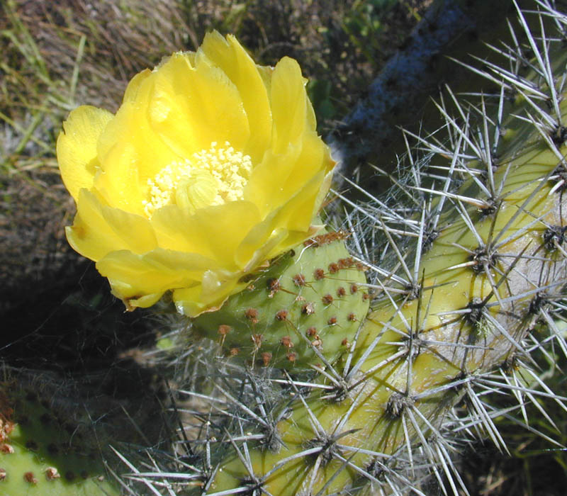 Flower of Opuntia species photographed June 30, 2004 by Eric Guinther in South Kohala, Island of Hawai‘i, Hawai‘i nei. It is probably not Opuntia ficus-indica.